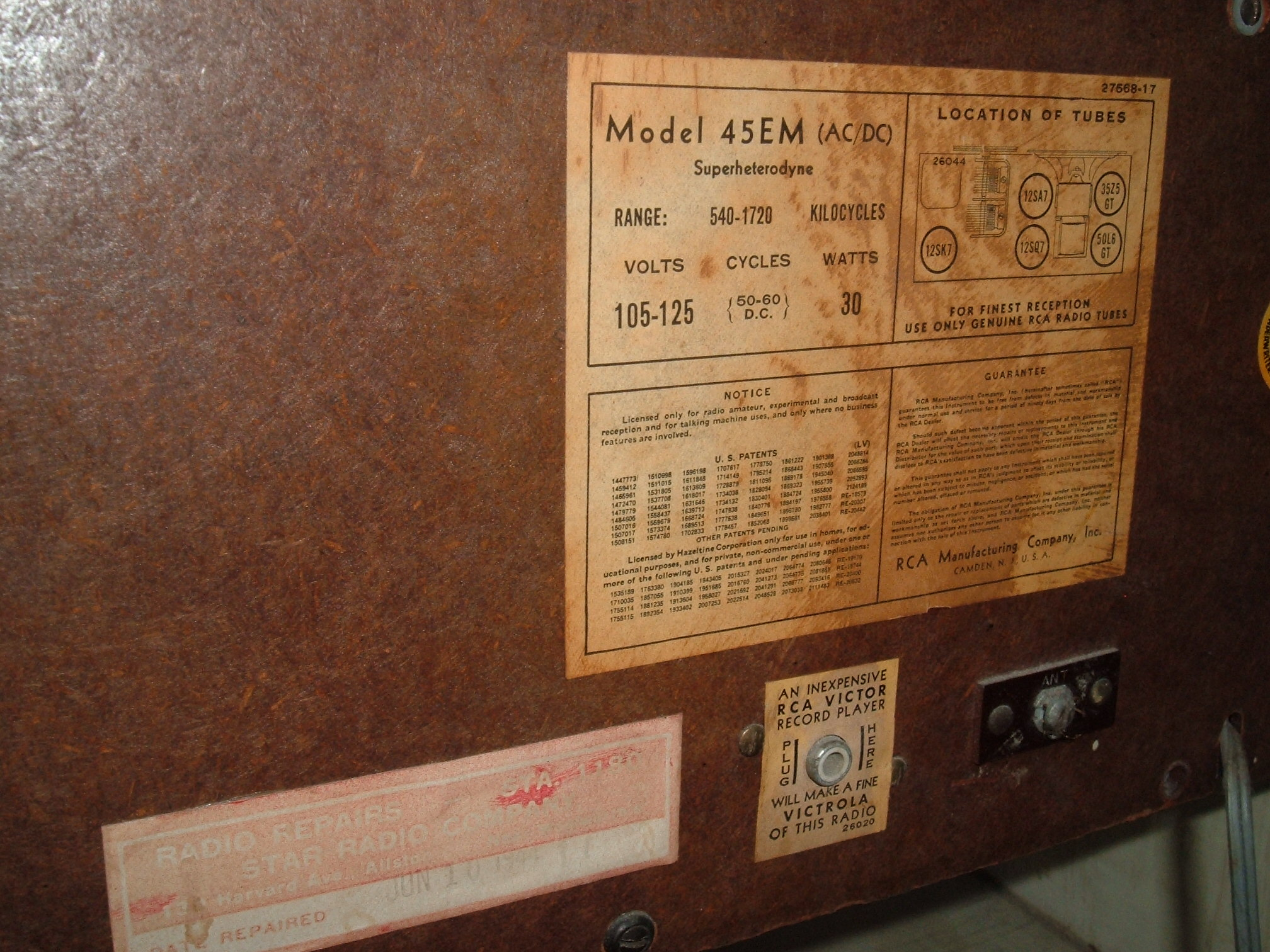 Back of an RCA AM radio model 45EM showing RCA connector. Note repair tag dated June 10, 1944.